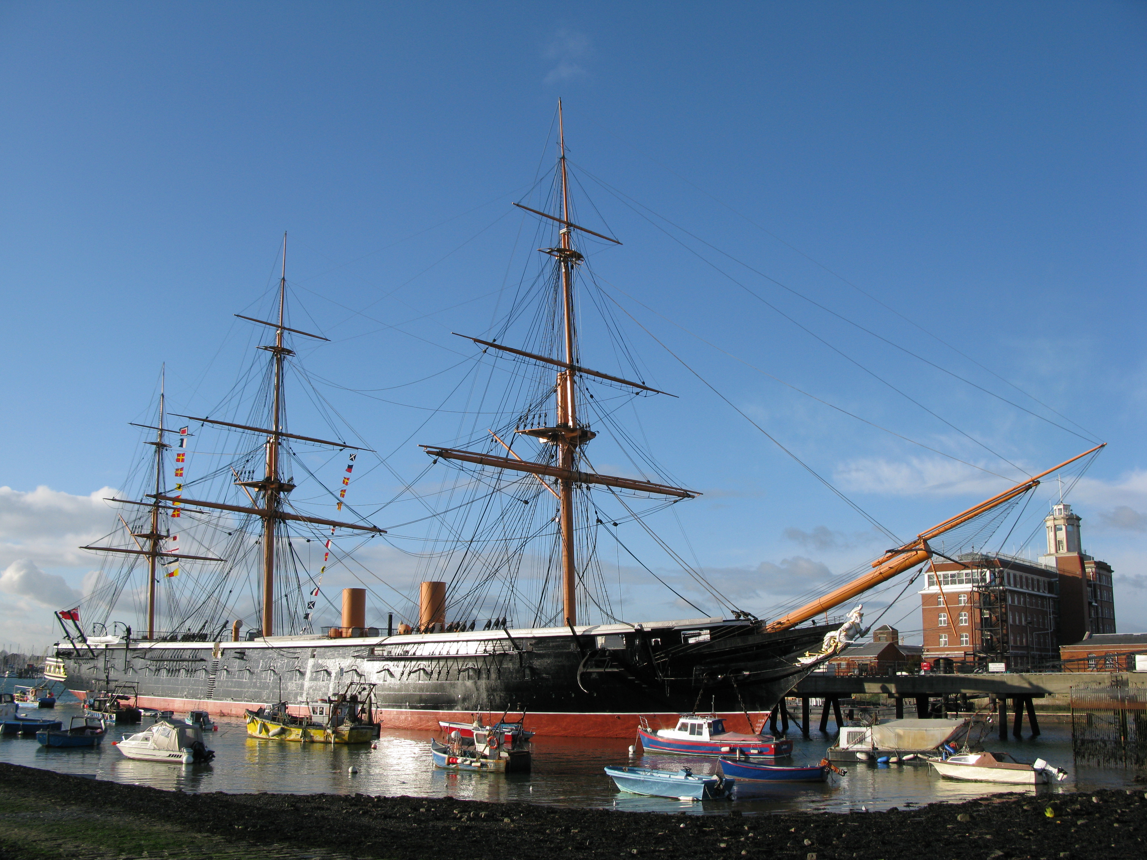 Photo of HMS Warrior (1860) the UK's first ironclad